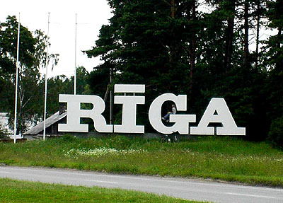 "RIGA" sign at the entrance of Latvia's capital